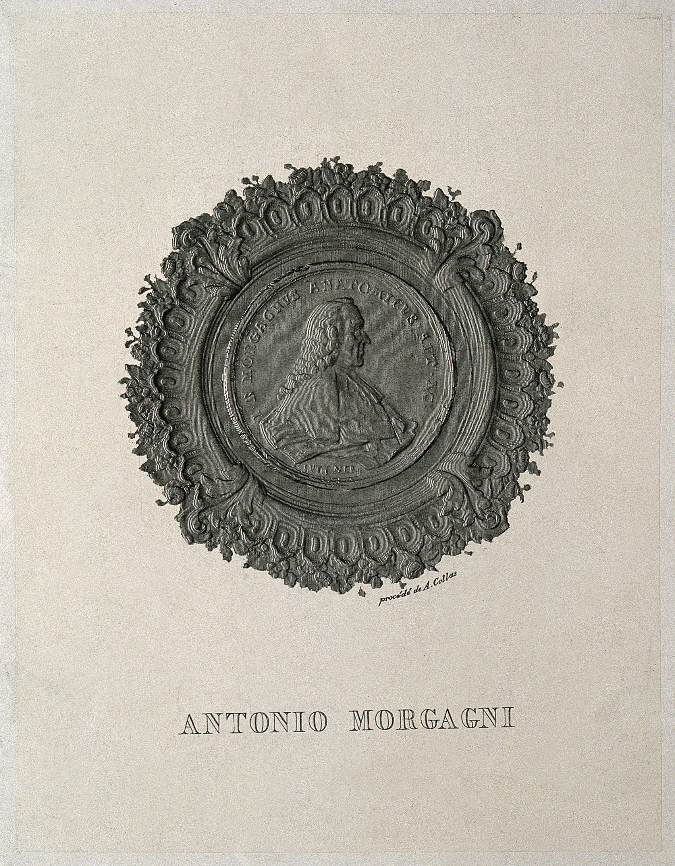 Portrait of Giovanni Battista Morgagni [1682 - 1771], Italian anatomist Iconographic Collections Keywords: portrait prints; engravings; Giovanni Battista Morgagni; Achille Collas